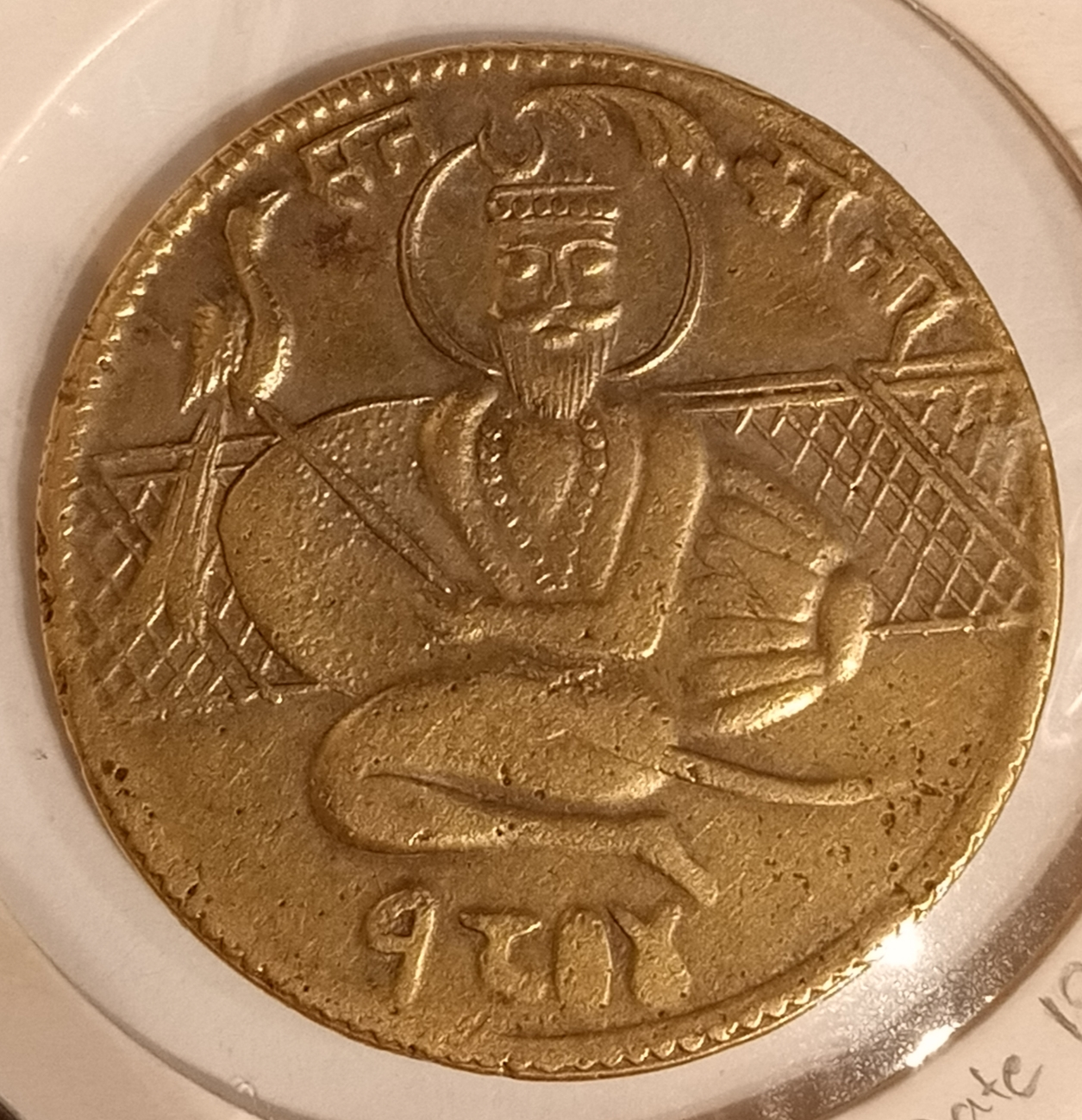 Reverse: Guru Gobind Singh holding a bird. The inscription above in Nagari script is “Sat Kartar” (The True Creator). The year date below is Vikram Samvat 1804 = 1747 A.D.)